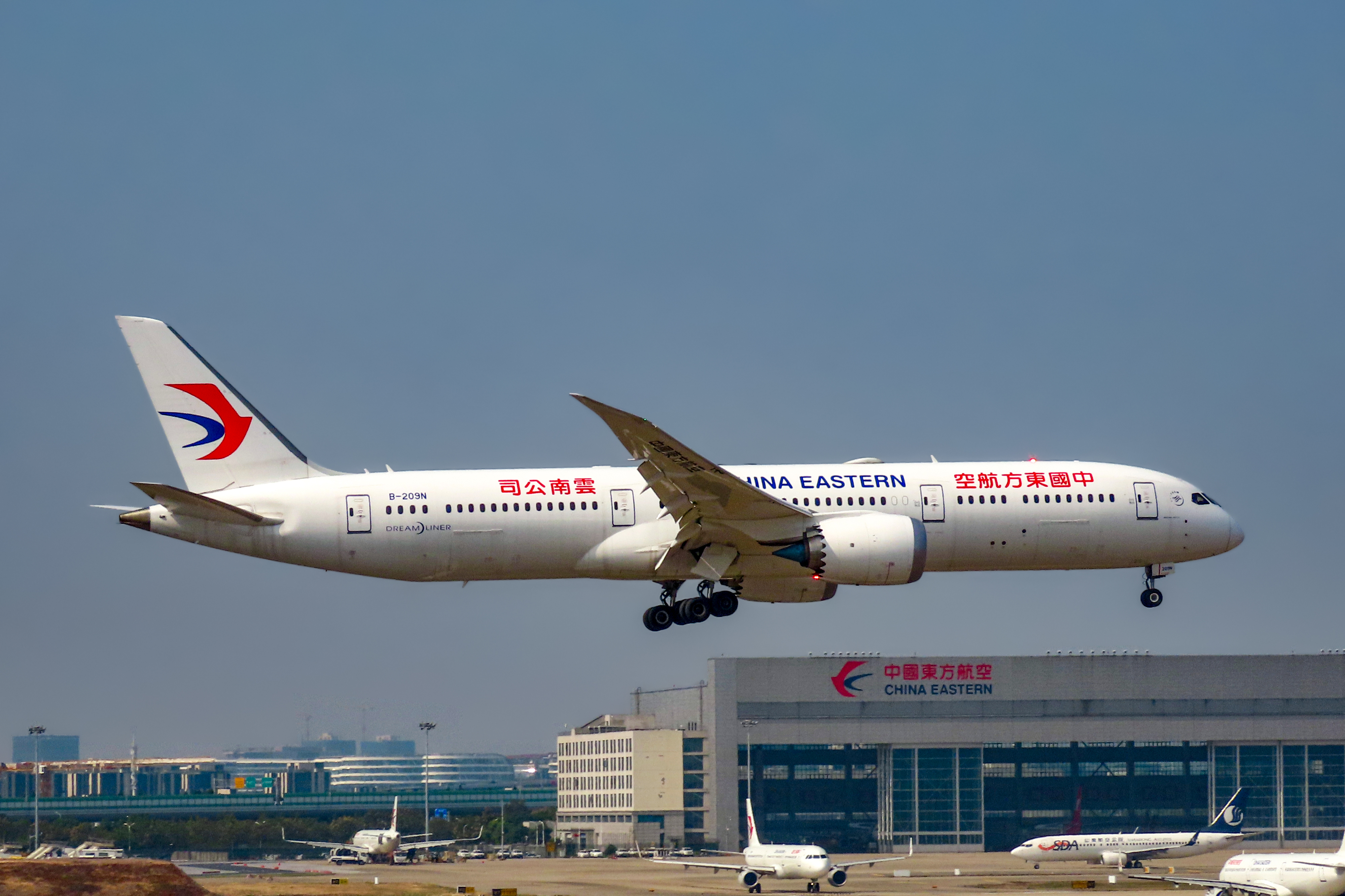 Dongfang 5801 from Kunming, using the "flagship" of China Eastern Yunnan.